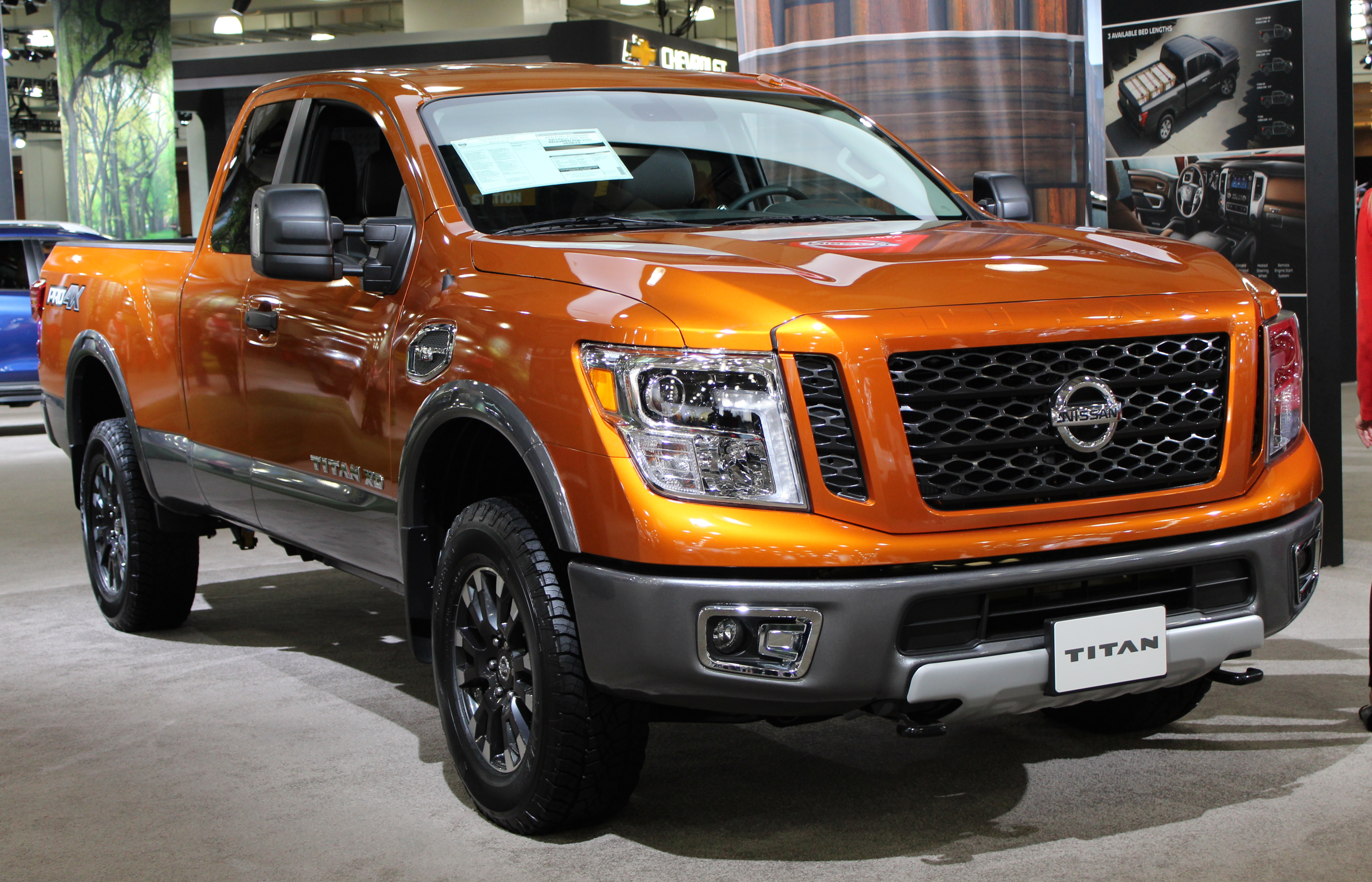 A 2019 Nissan Titan XD Pro4X photographed during the 2019 New York International Auto Show, in Hudson Yards, Manhattan, NYC